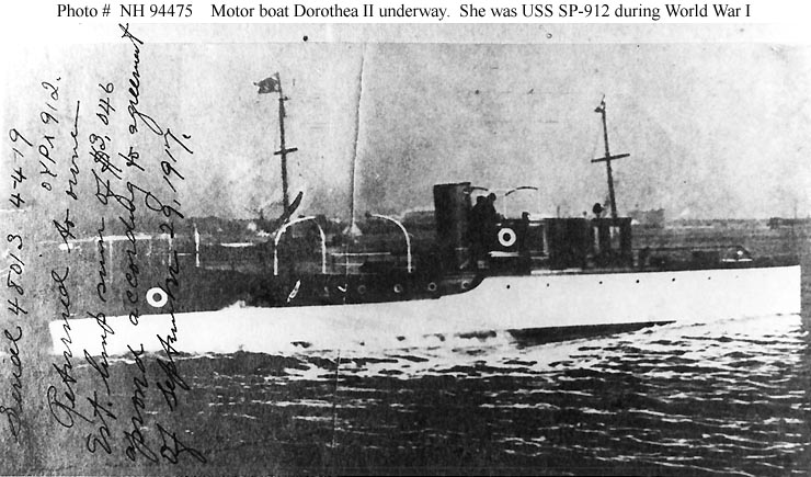 The private motorboat Dorothea II sometime prior to her United States Navy service as the patrol vessel